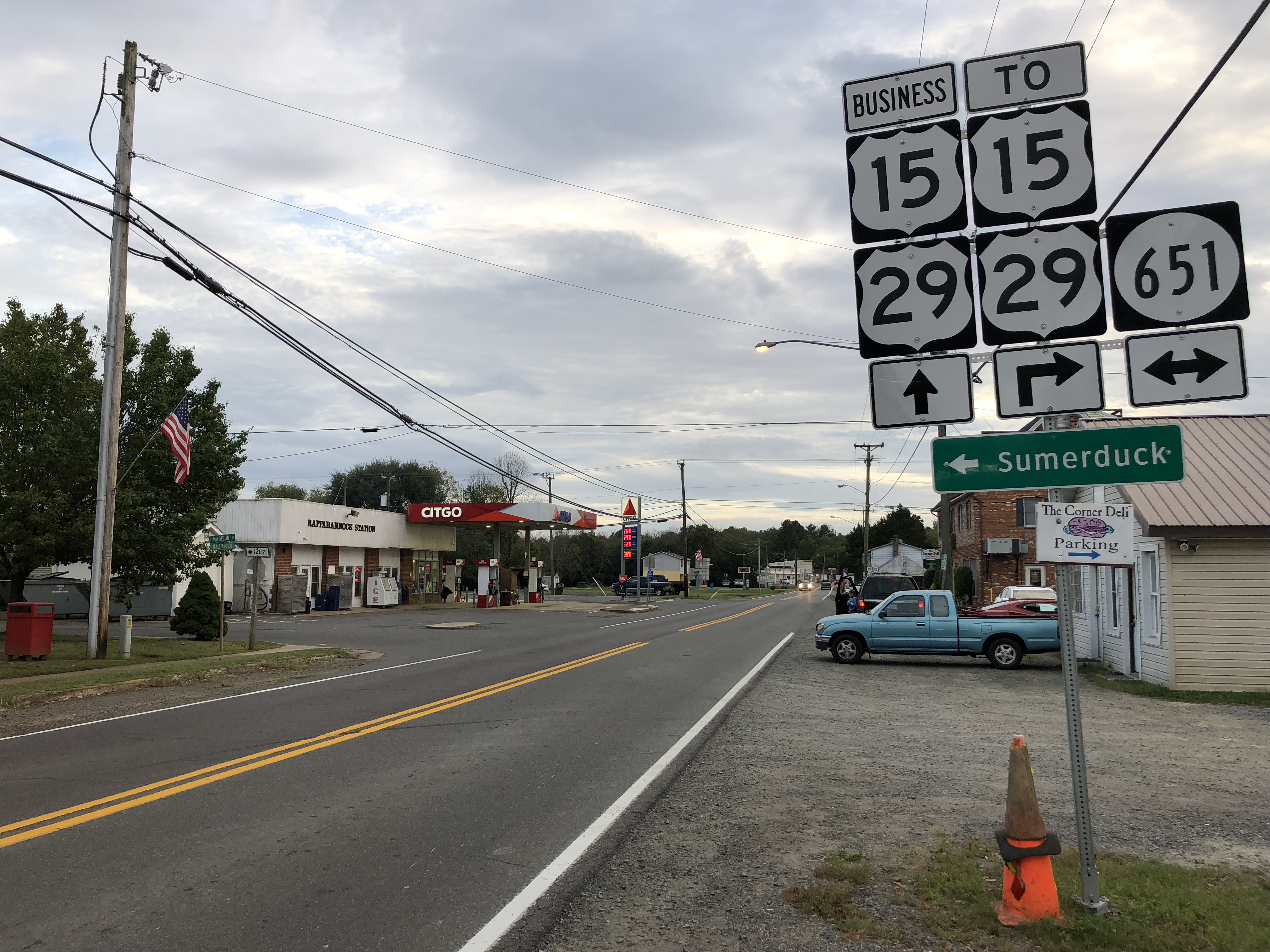 View south along U.S. Route 15 Business and U.S. Route 29 Business (James Madison Street) just north of Main Street (Virginia State Route 651) in Remington, Fauquier County, Virginia